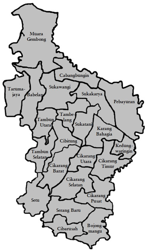 Peta kabupaten Bekasi dengan nama-nama kecamatan